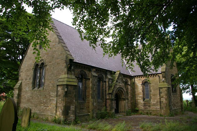 St. John's Parish Church, Rhosllanerchrugog This was consecrated in 1853 and closed in 2004 due to lack of funding for roof repairs. The building (which is grade II listed) still appears to be in good condition. Despite being relatively new and having excellent stone work, it has an ancient and haunting feel about it - possibly due to the Romanesque revival / Norman style of architecture and the overgrowths. It is located next to the main cemetery (which is not accessible from here) and there are also gravestones in the church grounds which I found to be unique. Several of them are in purple slate. I liked this place.